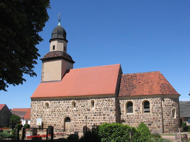 Stone church Grubo, built at the first third of the13th century. The village Grubo is a part of the municipality Wiesenburg/Mark in the district Potsdam Mittelmark, state Brandenburg, Germany. Wiesenburg appertains to the natural preserve Naturpark Hoher Fläming.